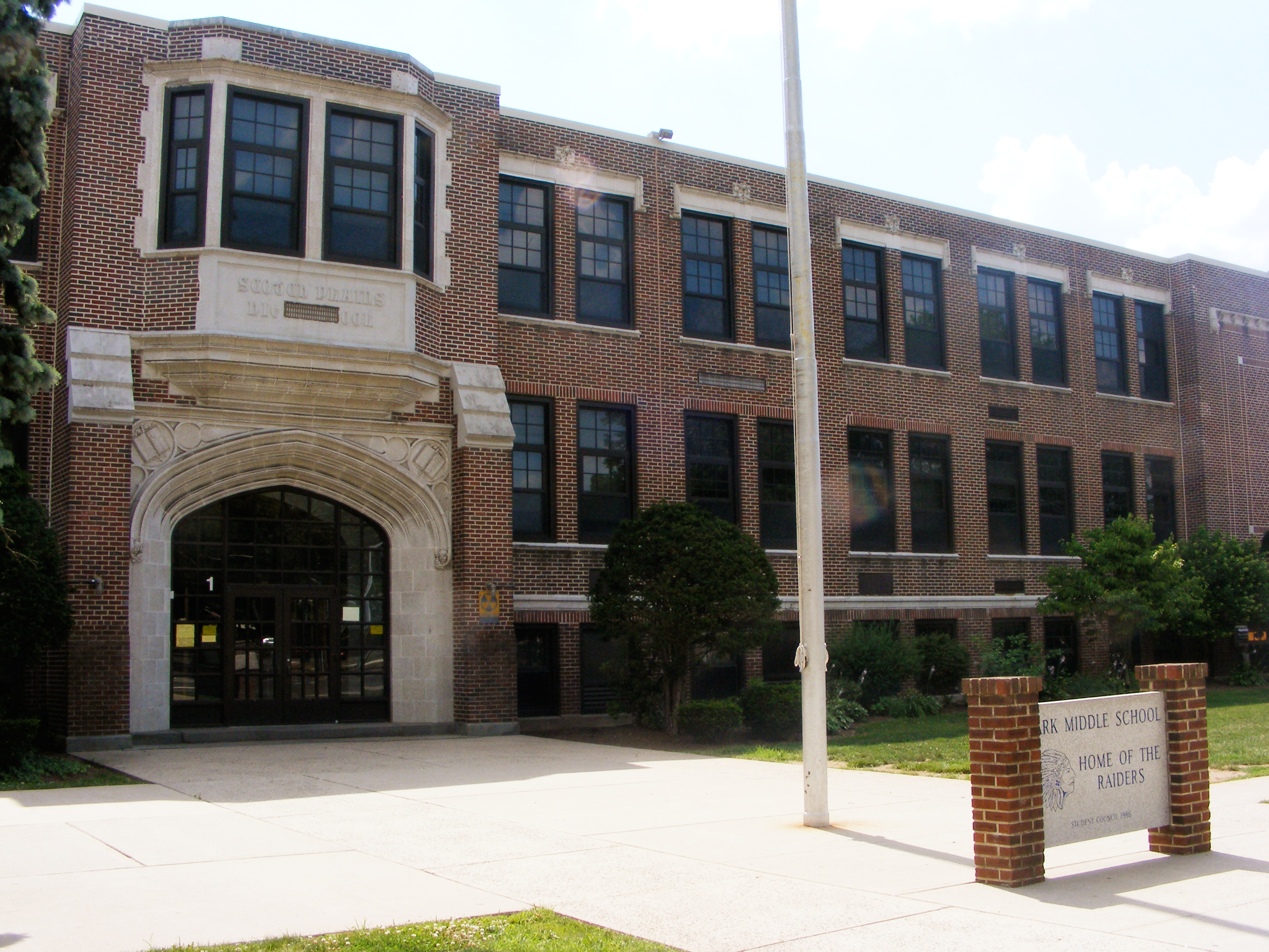 Scotch Plains School. Formerly the Scotch Plains High School, now the Scotch Plains Middle School